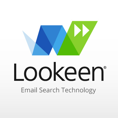 Logo of the Desktop Search Lookeen